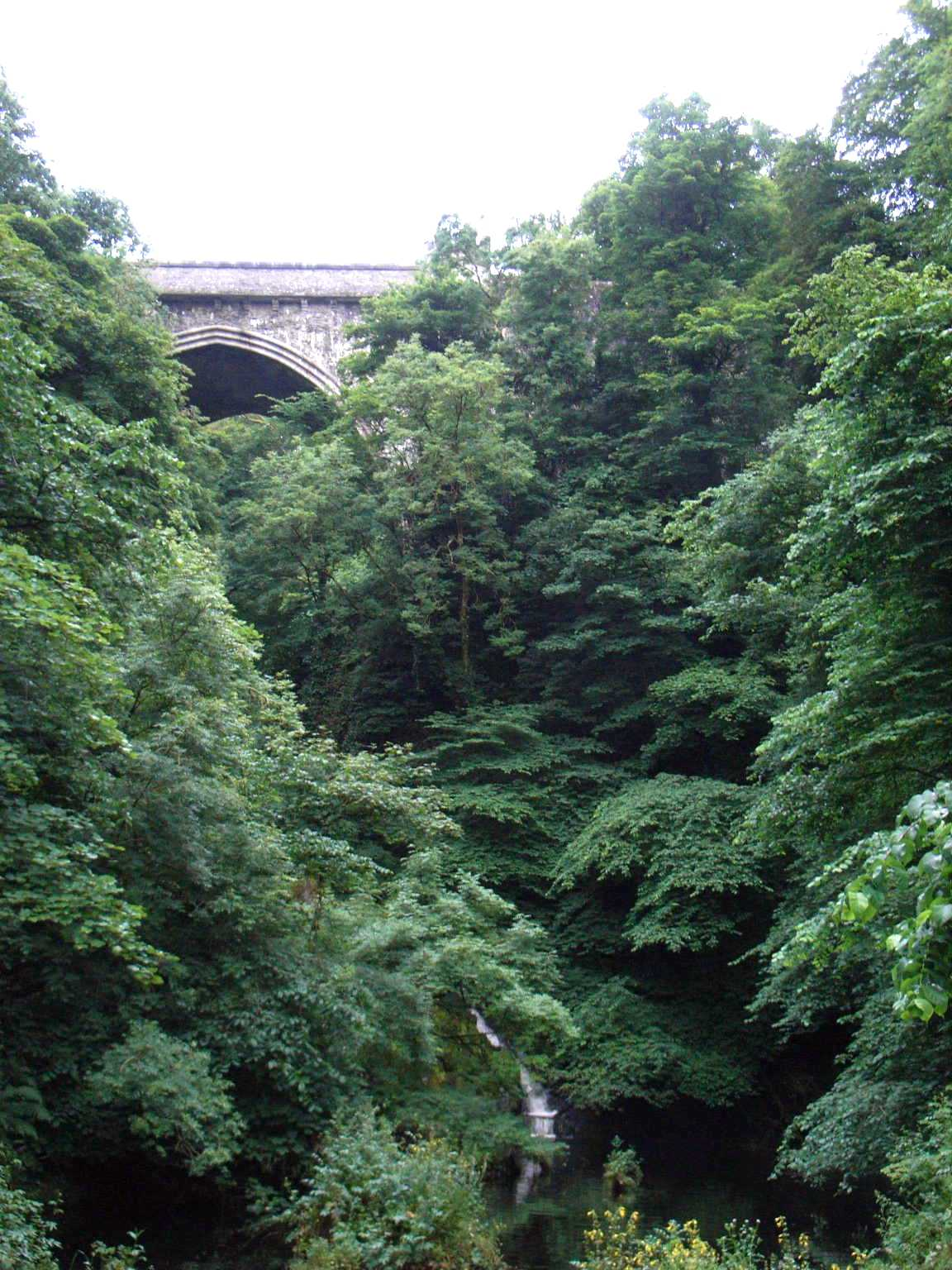 Poulaphouca (or Pollaphuca) Falls & Bridge, on the border between Co. Kildare and Co. Wicklow, Ireland